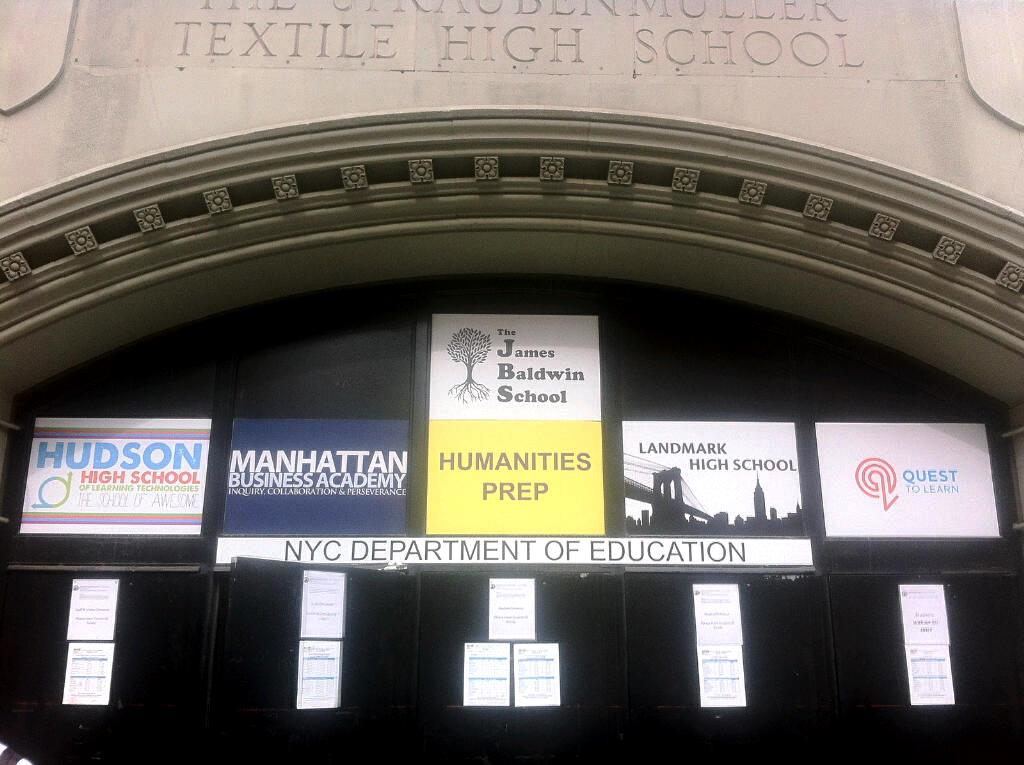 The front door of the Bayard Rustin Educational Complex at 351 West 18th Street between Eighth and Ninth Avenues in the Chelsea neighborhood of Manhattan, New York City, showing the signs of the 6 schools in the building, which is a "vertical campus" of the New York City Department of Education. Of the six schools all are high schools — grades 9 through 12 – except for Quest to Learn (Q2L) which is a combined middle school (grades 6-8)/high school.